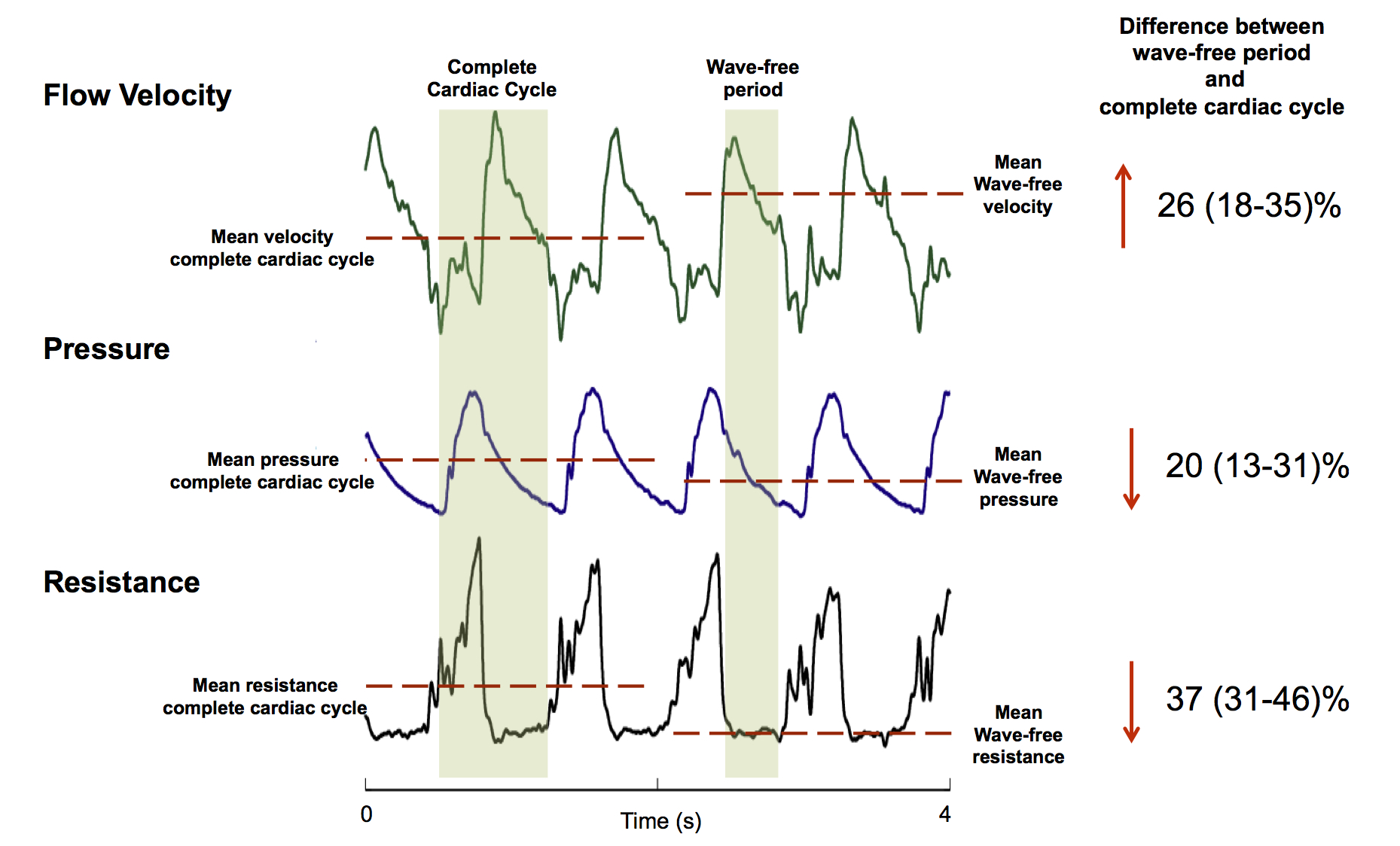 The flow velocity, pressure, and instantaneous microvascular resistance were calculated over the wave-free period and during that of the complete cardiac cycle. Flow velocity is higher, and pressure is lower over the wave-free period. This results in lower microvascular resistance during the wave-free period in comparison to the complete cardiac cycle. Values are expressed as median+/-interquartile range. Sen S, Asrress KN, Nijjer S, et al. Diagnostic classification of the instantaneous wave-free ratio is equivalent to fractional flow reserve and is not improved with adenosine administration. Results of CLARIFY (Classification Accuracy of Pressure-Only Ratios Against Indices Using Flow Study). J Am Coll Cardiol 2013;61:1409–20.